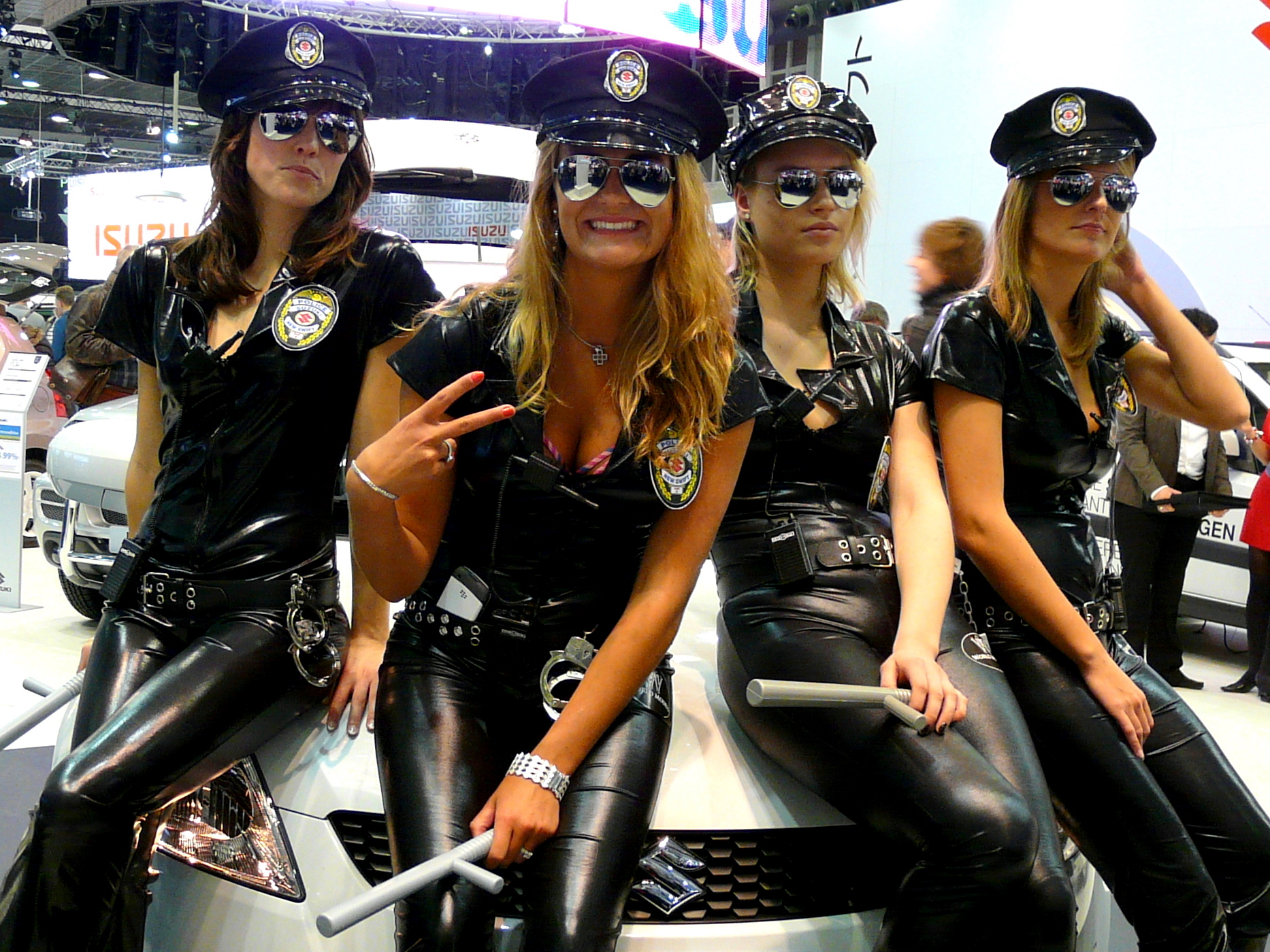 2011 : charming police women on the autosalon of Brussels.